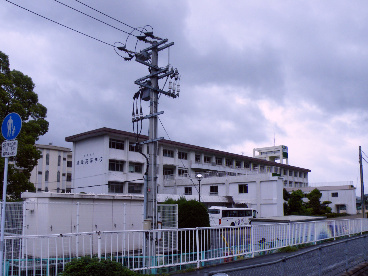 Nagasaki_prefectural Seiho High School